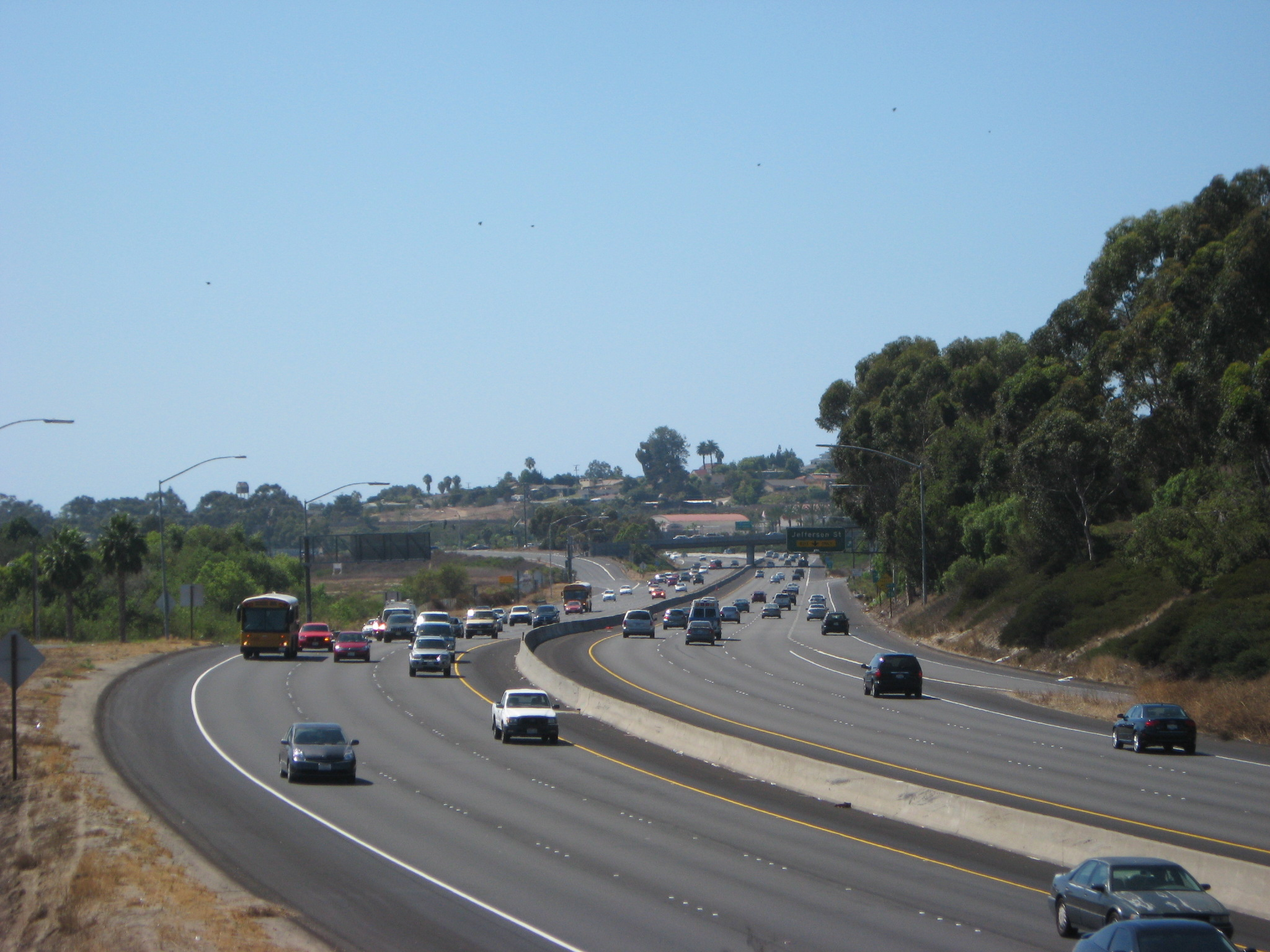 Taken off the overpass over California State Route 78 at El Camino Real in Oceanside, California